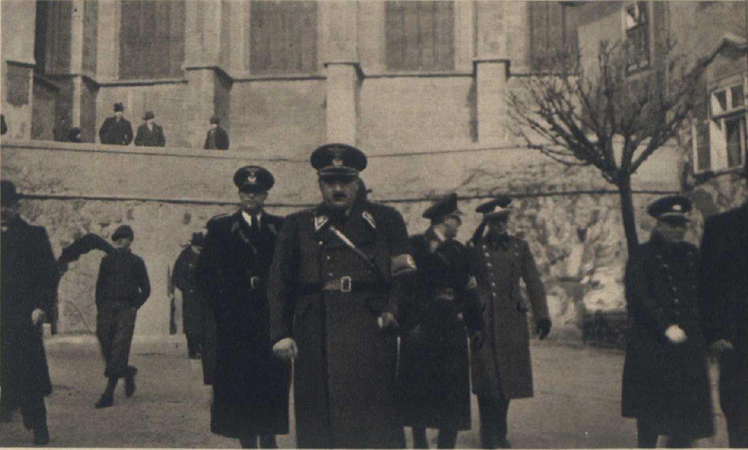 Karol Sidor leaves the requiem for Pius XI in Bratislava.